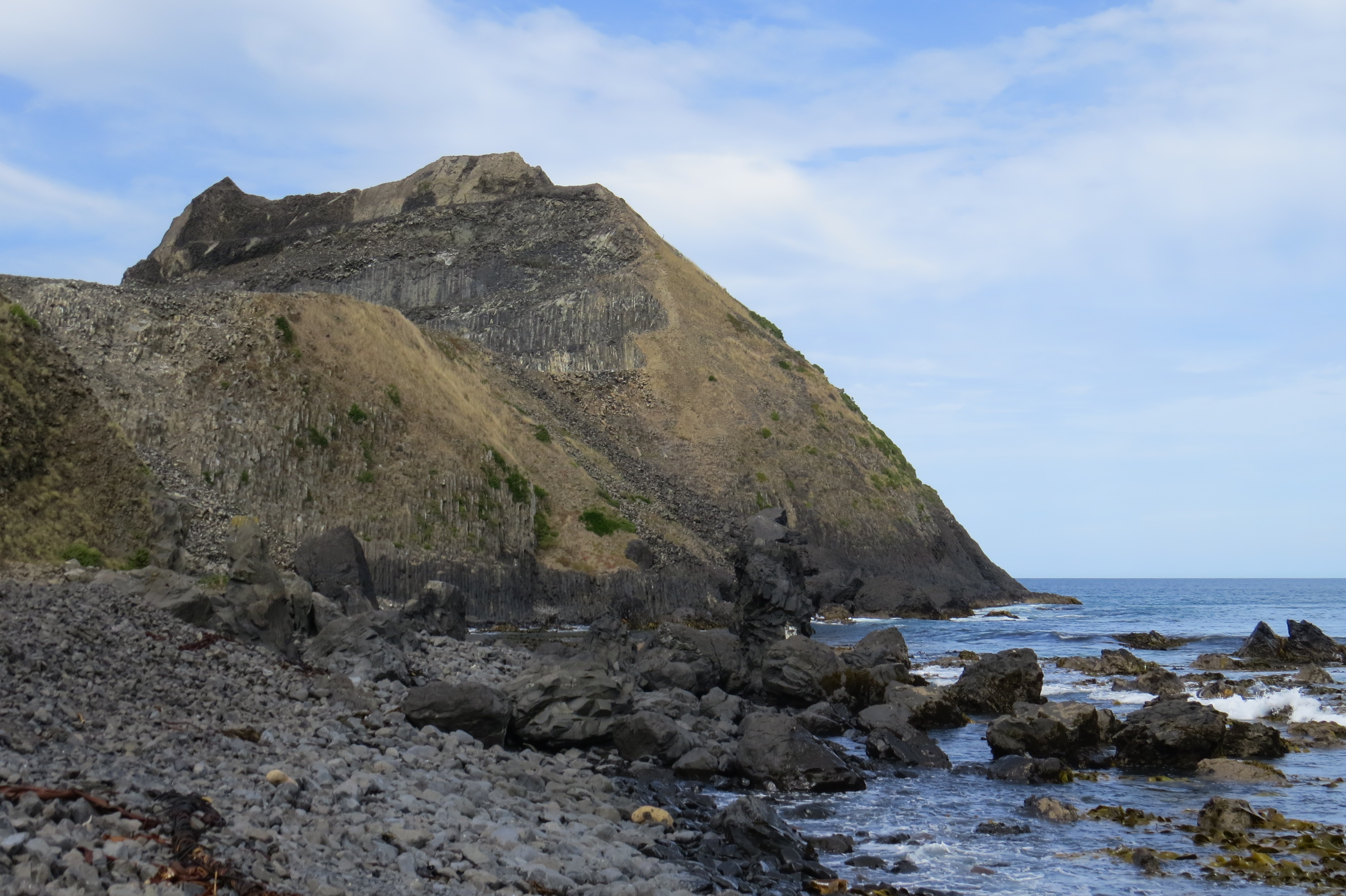 Columnar basalt reaches the coast at Blackhead, near Dunedin, New Zealand.